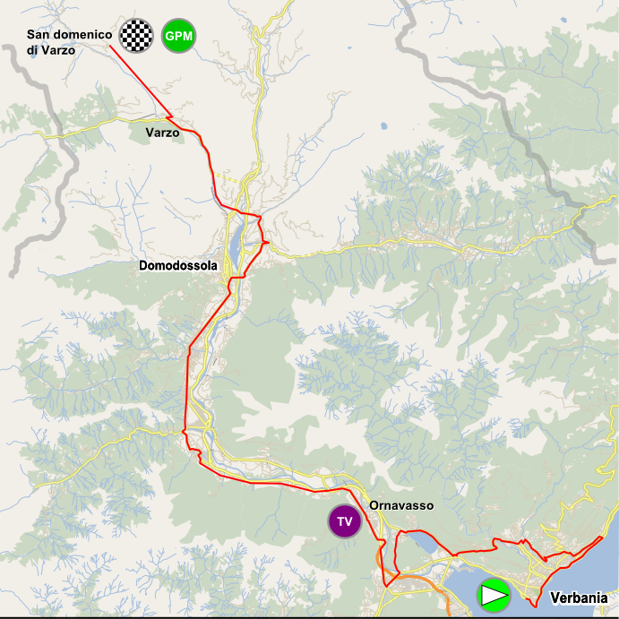 Map of the stage 9 of Giro Donne 2015. Background from OpenStreetMap.